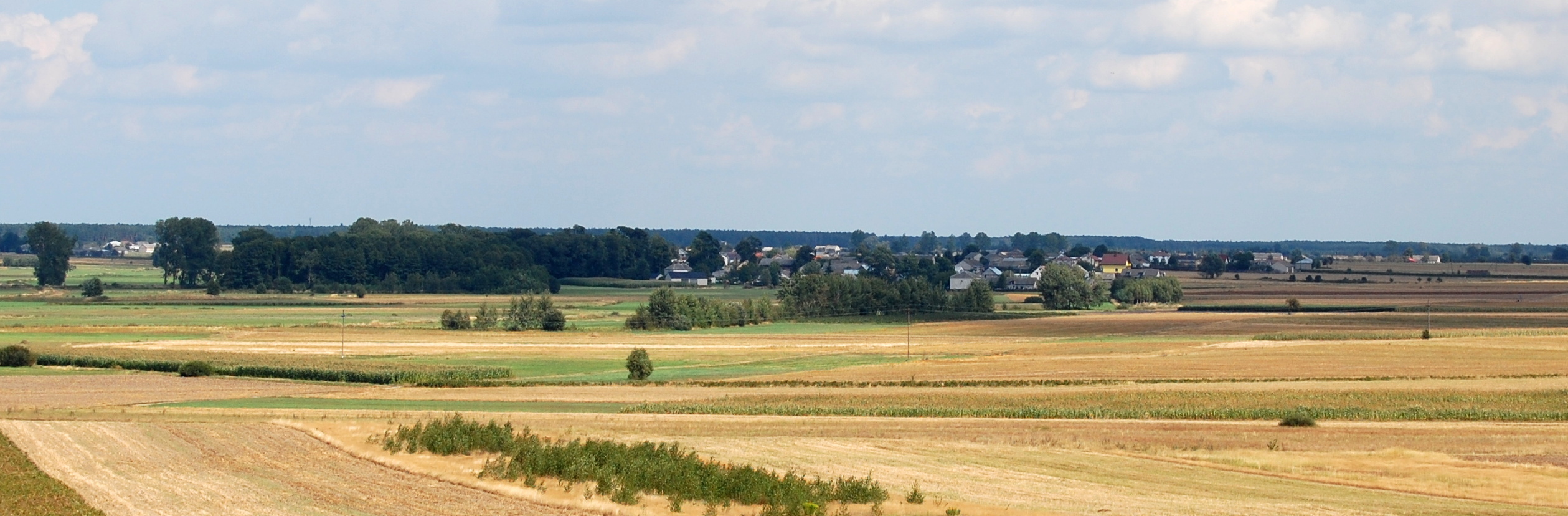 View of Wola Okrzejska, Lublin Voivodeship, Poland.